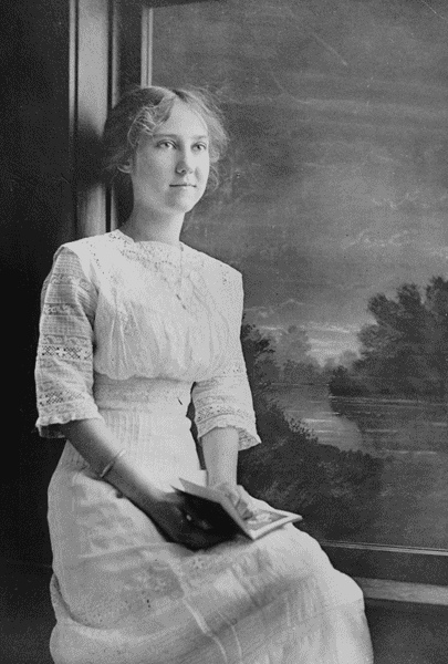 Original Caption: This is a photograph of Mamie Eisenhower at the age of 17. U.S. National Archives’ Local Identifier: 77-10-73 From:: Series: Photographs of President Dwight D. Eisenhower and First Lady Mamie Doud Eisenhower, compiled 1953 - 1961, documenting the period 1896 - 1961 Created By:: President (1953-1961 : Eisenhower). Social Office. (01/20/1953 - 01/20/1961) Production Date: 1913 - 1913 Persistent URL: Repository: Dwight D. Eisenhower Library, Abilene, KS For information about ordering reproductions of photographs held by the Still Picture Unit, visit: Reproductions may be ordered via an independent vendor. NARA maintains a list of vendors at Buy copies of selected National Archives photographs and documents at the National Archives Print Shop online: Access Restrictions: Unrestricted Use Restrictions: Unrestricted